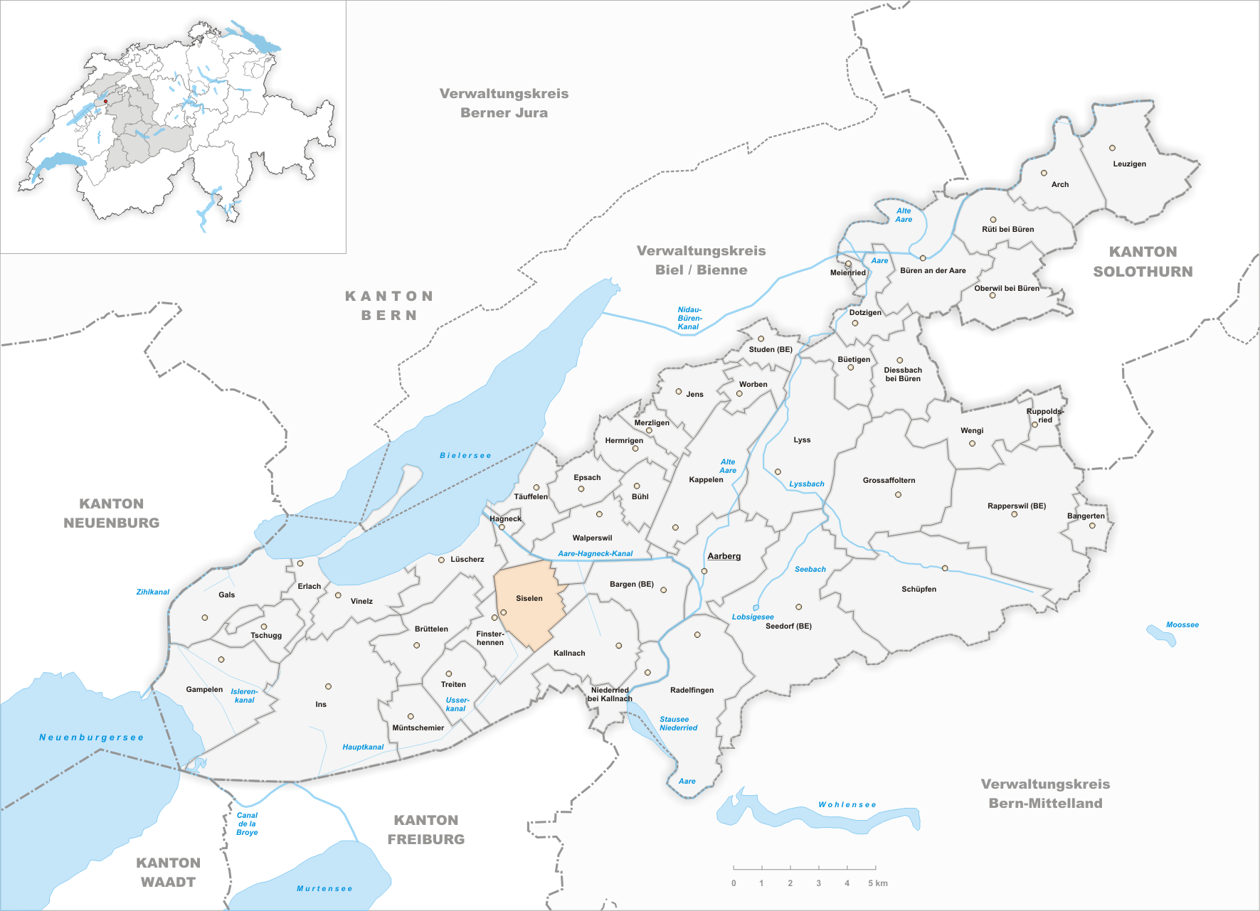 Municipality Siselen